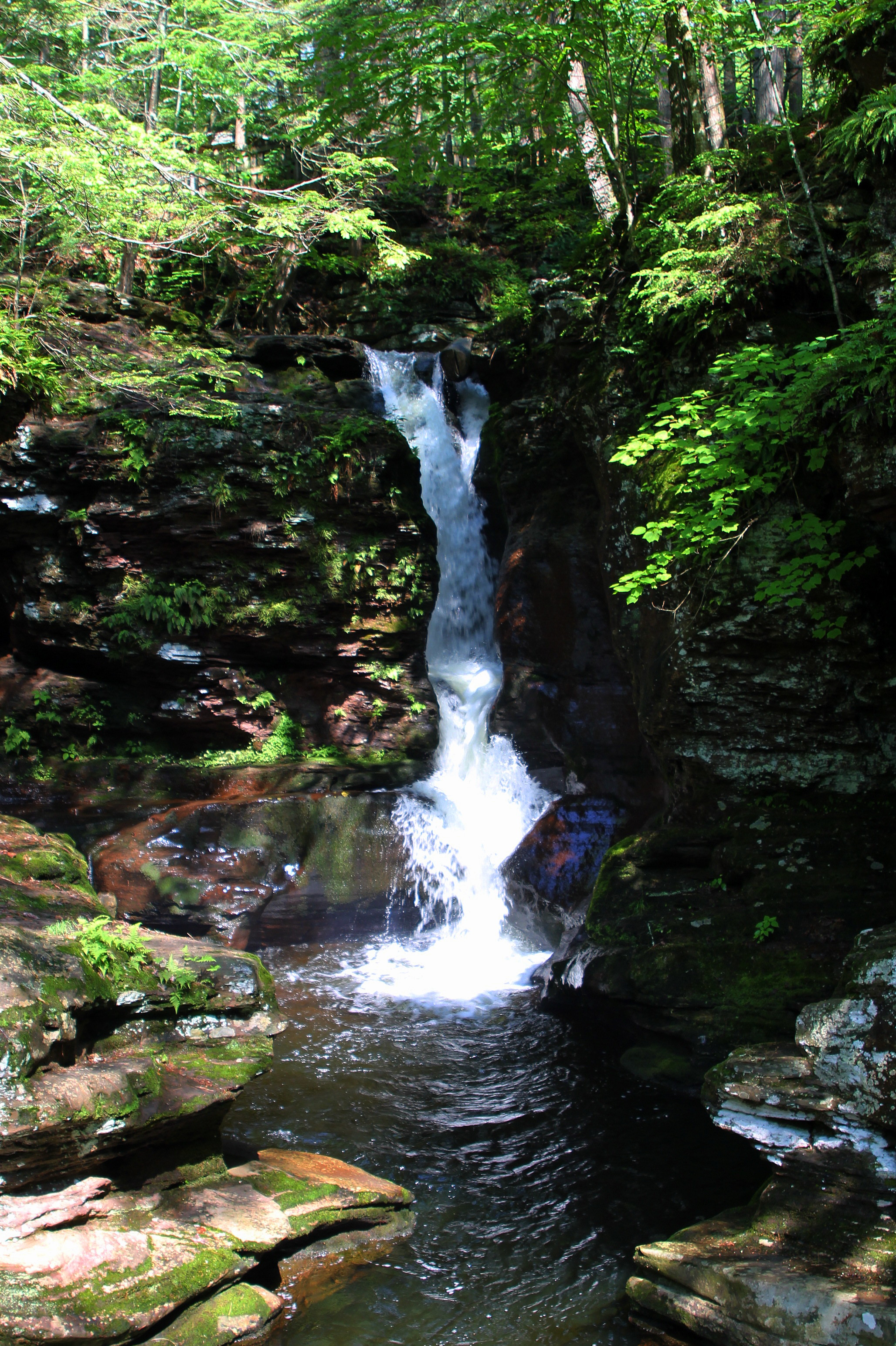 Adams Falls on Kitchen Creek, in Ricketts Glen State Park. Taken from the Evergreen Trail.